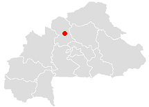 The map shows the location of the town of Yako in Burkina Faso.